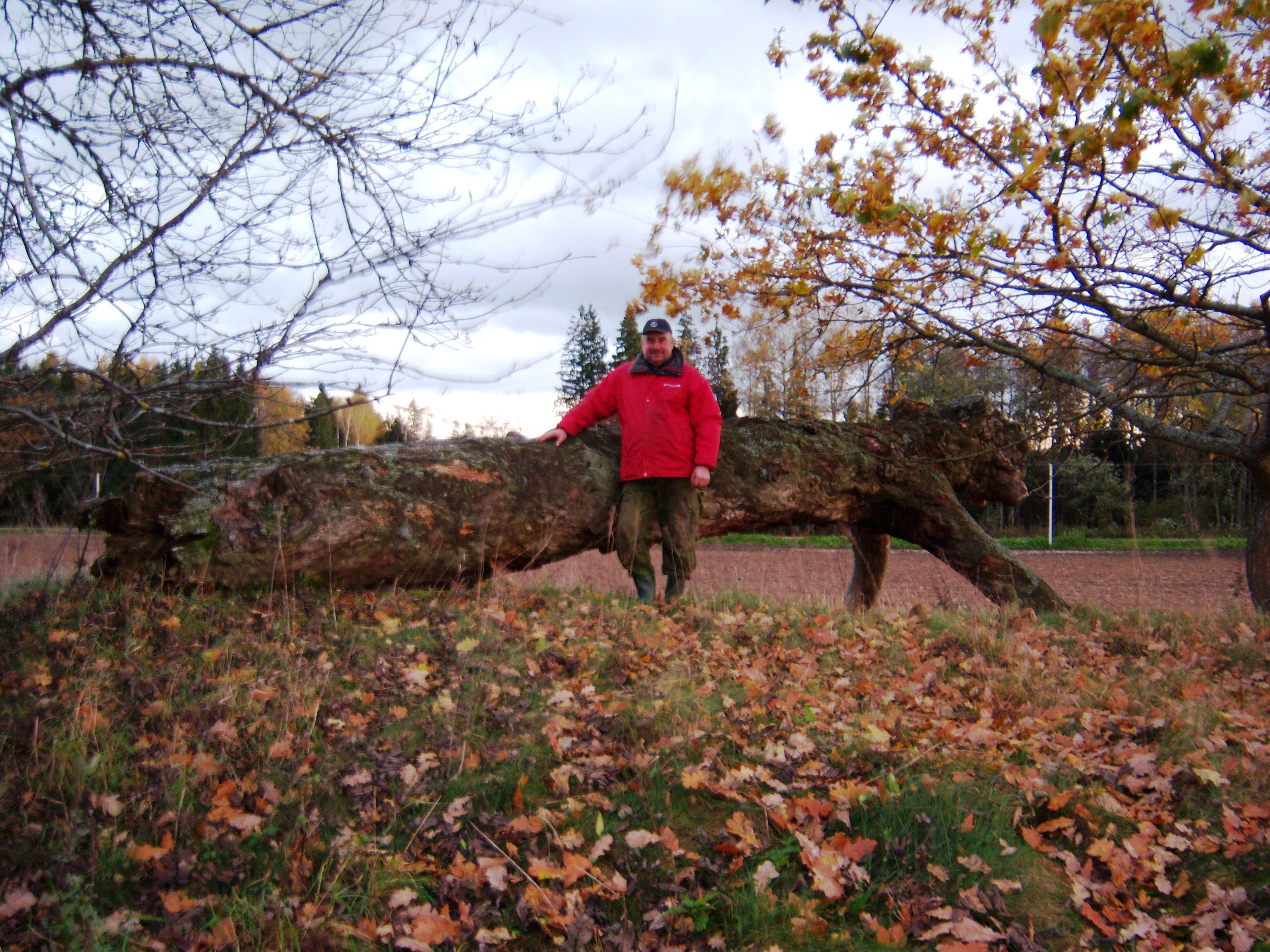 Remains of the pine tree called Milžinkapis in Girininkai I Village, Kaunas District, Lithuania